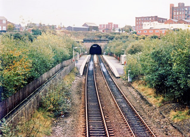 Oldham Werneth railway station Original description: Oldham Werneth station 1988 Werneth tunnel immediately beyond